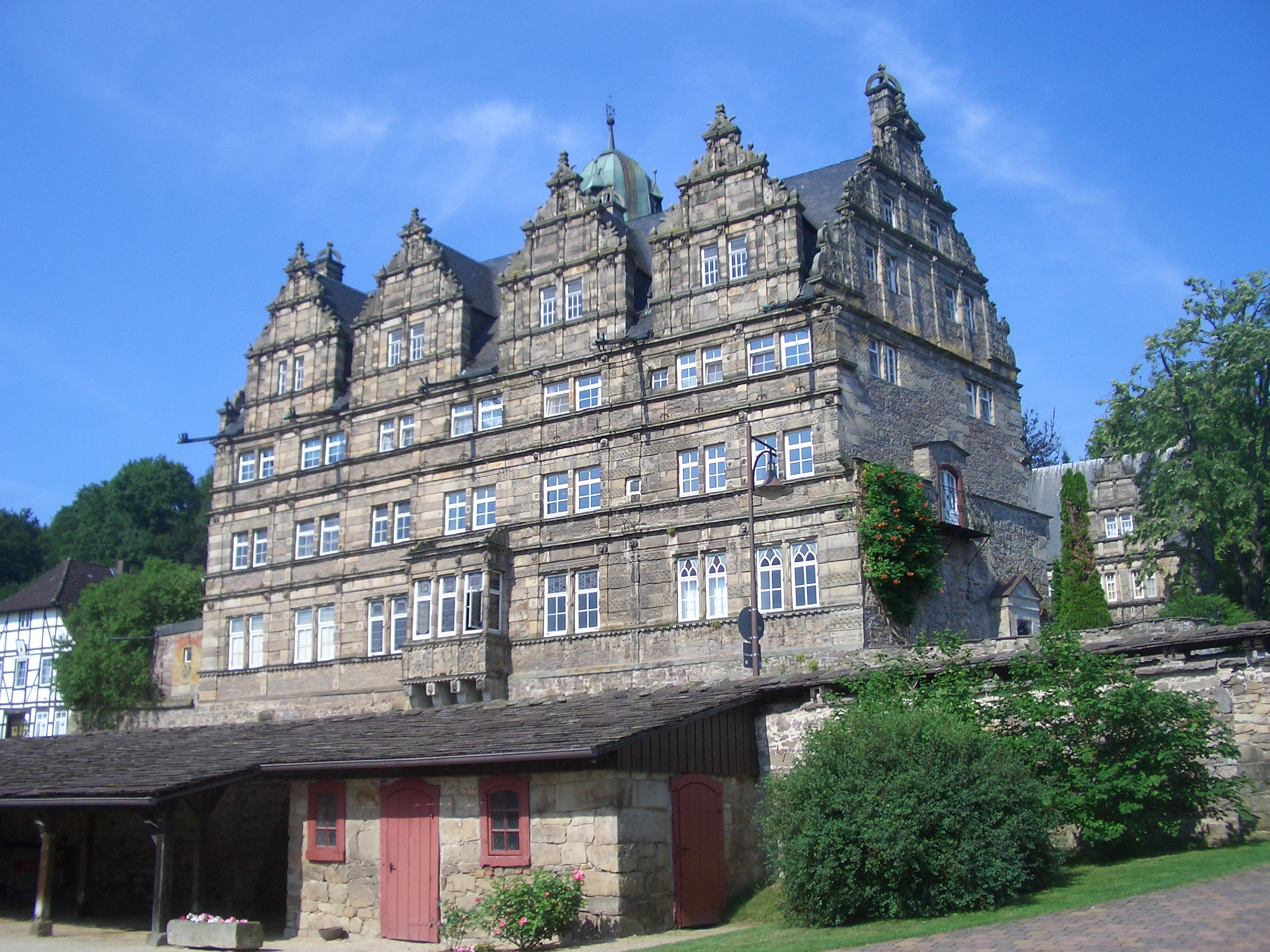 Schloss Hamelschenburg near Hameln, Germany